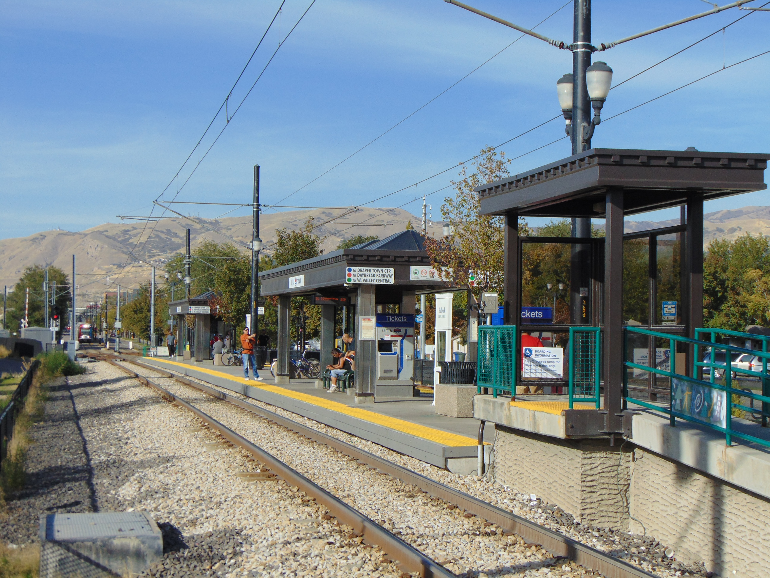 Looking northeast at the passenger platform at the Ballpark station in Salt Lake City, Utah, October 2016